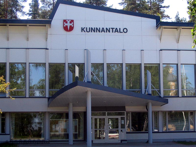 Nastola municipality hall, Nastola, Finland